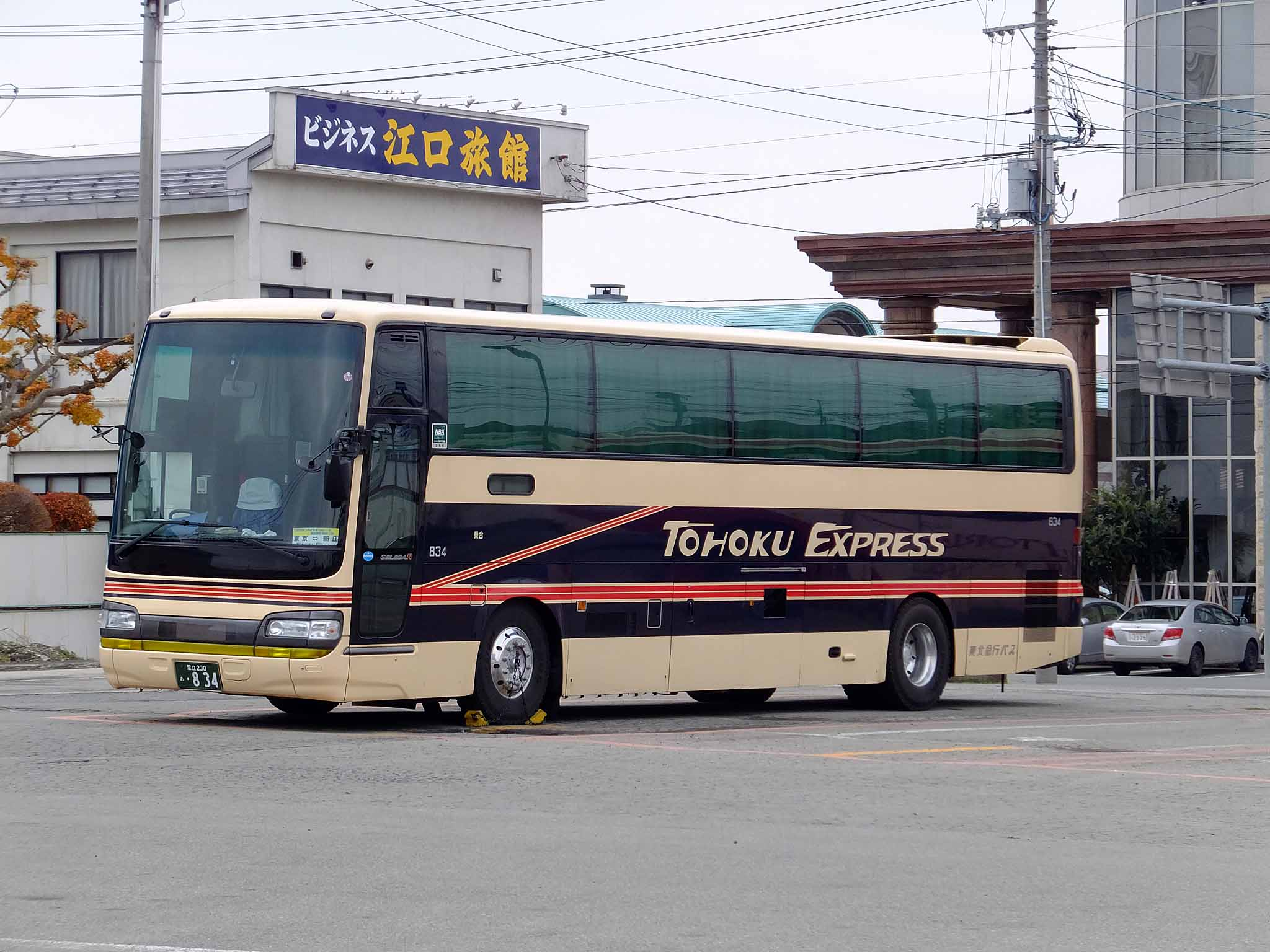 Tohoku Express "Tokyo Sunrise" staying at Yamako Bus Shinjo Dept. Model: Hino Selega R KL-RU1FSEA License plate: TKA230 A0834